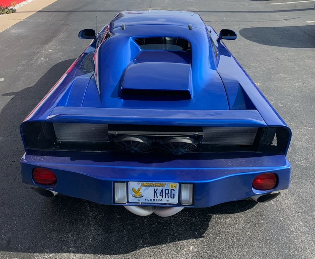 Mosler raptor pictures